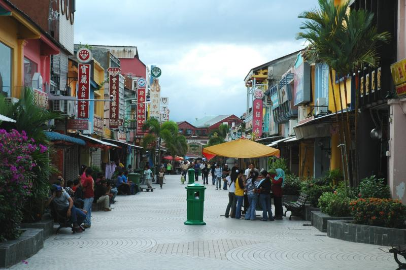 pedestrian shopping street of Jalan India (Kuching's Little India).